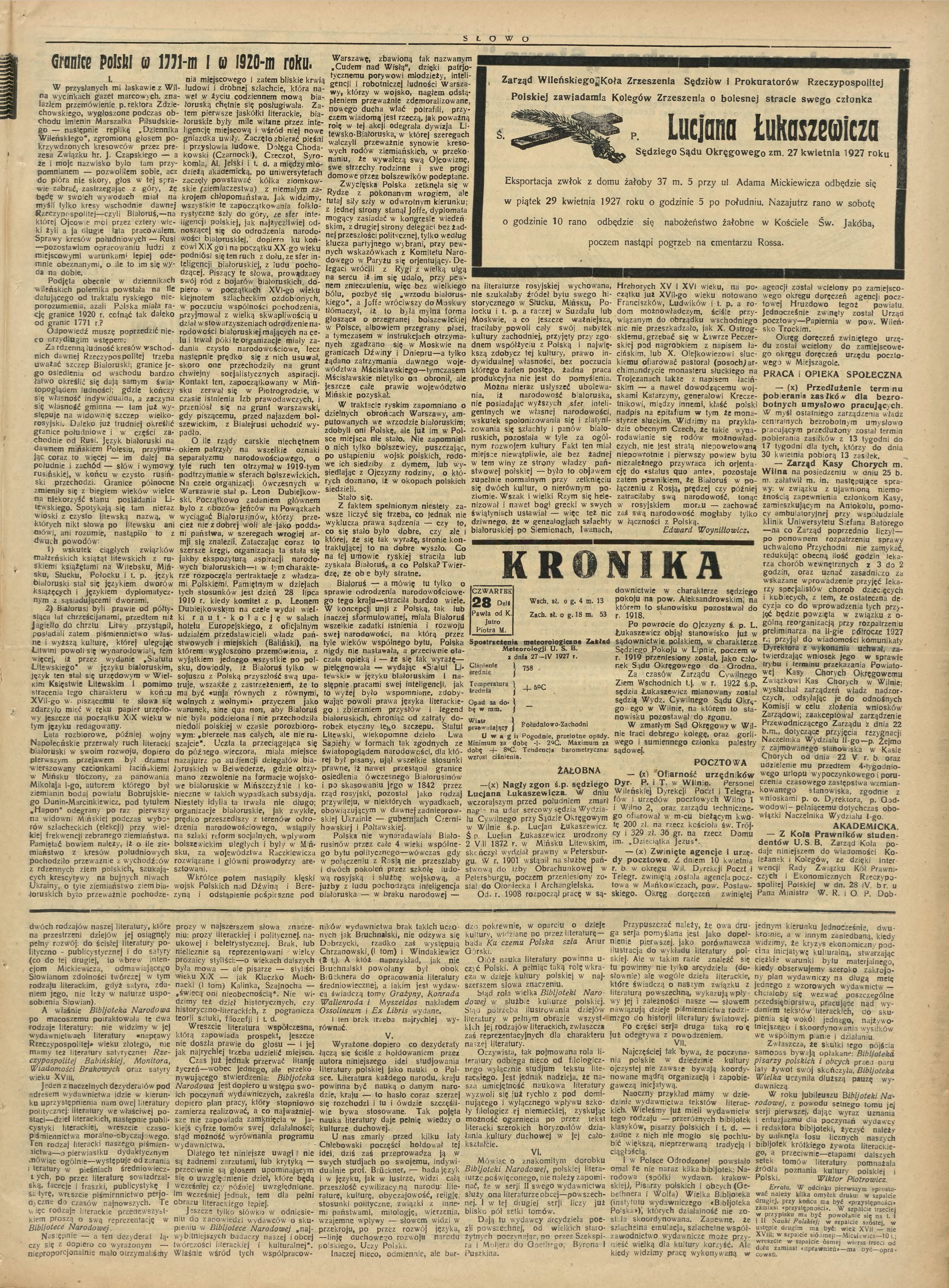 third page of newspaper "Słowo" (#96, 1927 AD), Poland. Edward Woynillowicz (1847-1928)'s article